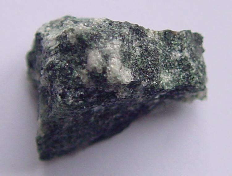 Hsianghualite, white, from Xianghualing, Hunan Province, China. Specimen size 1.5 cm